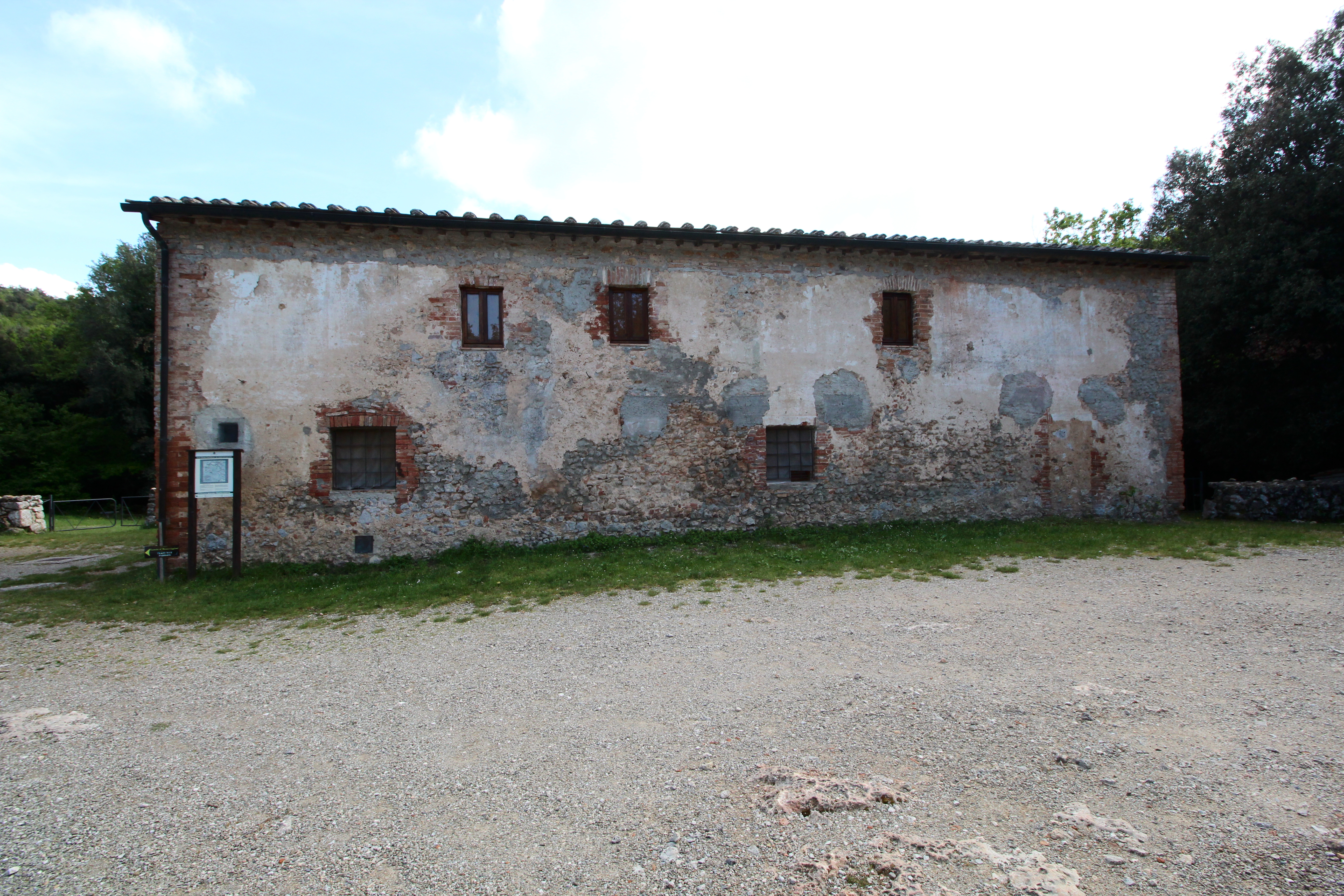 Casa Giubileo, on Mount Maggio (Montemaggio), in woods south of Badia a Isola, Monteriggioni, Province of Siena, Tuscany, Italy